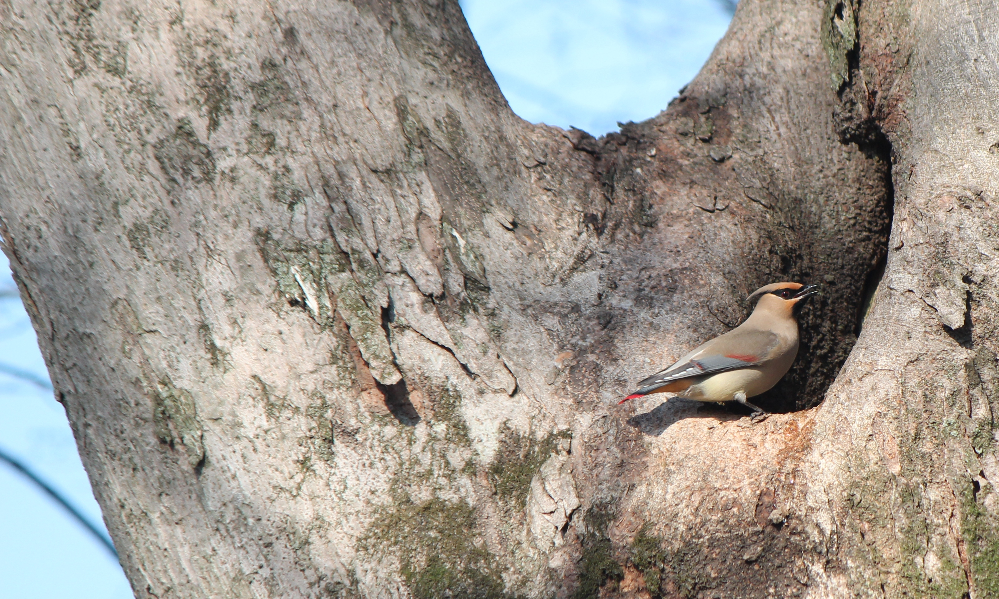 Japanese waxwing (Bombycilla japonica) drinking water on tree, in Gifu prefecture, Japan.